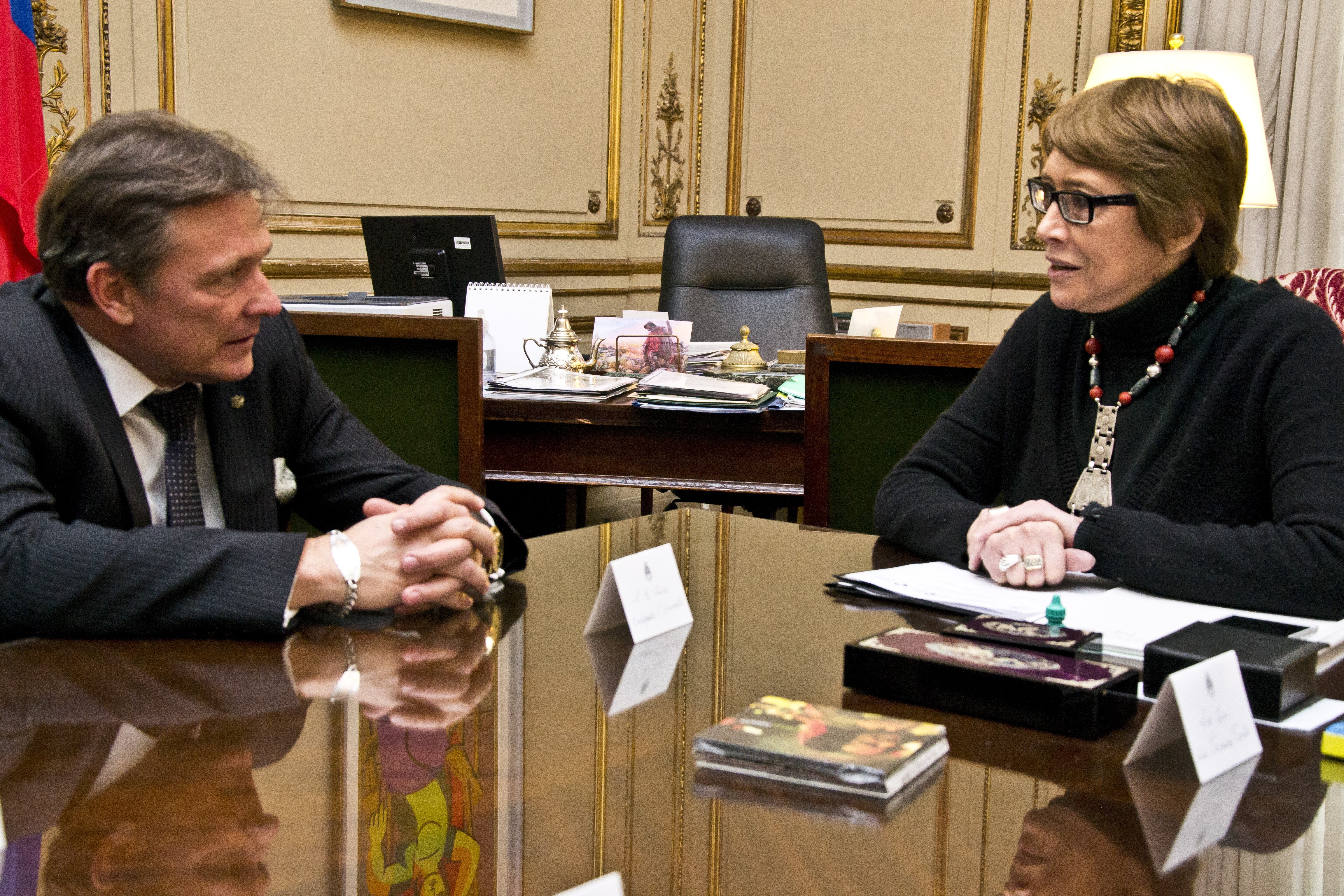 Ambassador of Russia to Argentina Viktor Koronelli in a meeting with Minister of Culture of Argentina Teresa Parodi.